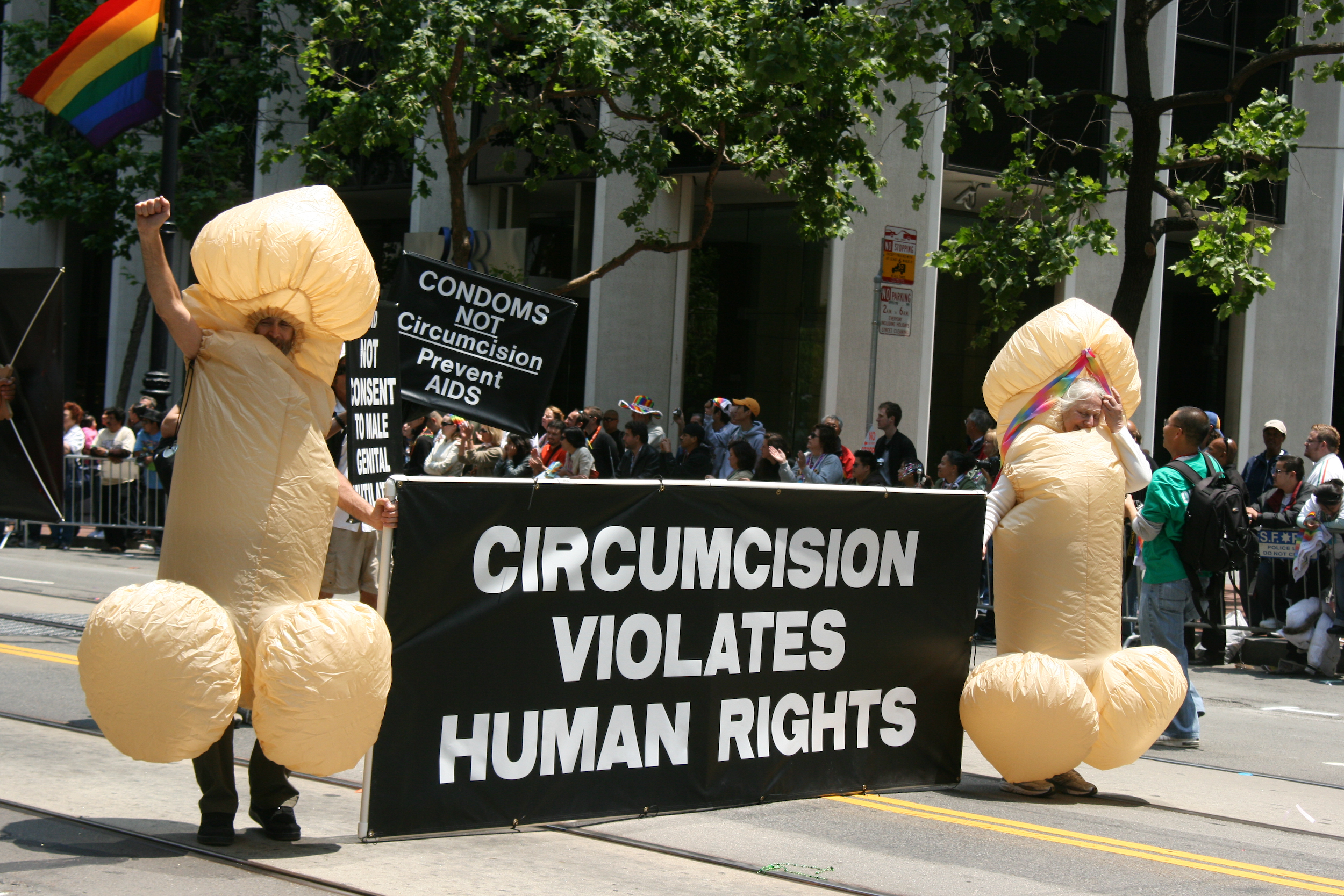 Anti-circumcision activists at San Francisco's Pride Parade in 2008